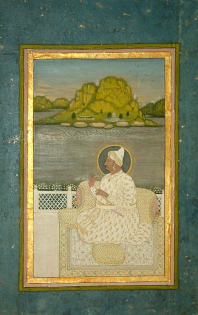 Indian, Moghul Raja Todar Mall, Finance Minister of Akbar 17th Century Painting Gouache on paper AC 1967.34 Gift of Alban G. Widgery